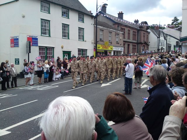 Welcome home, Chepstow welcomes home 1 Rifles from Afghanistan